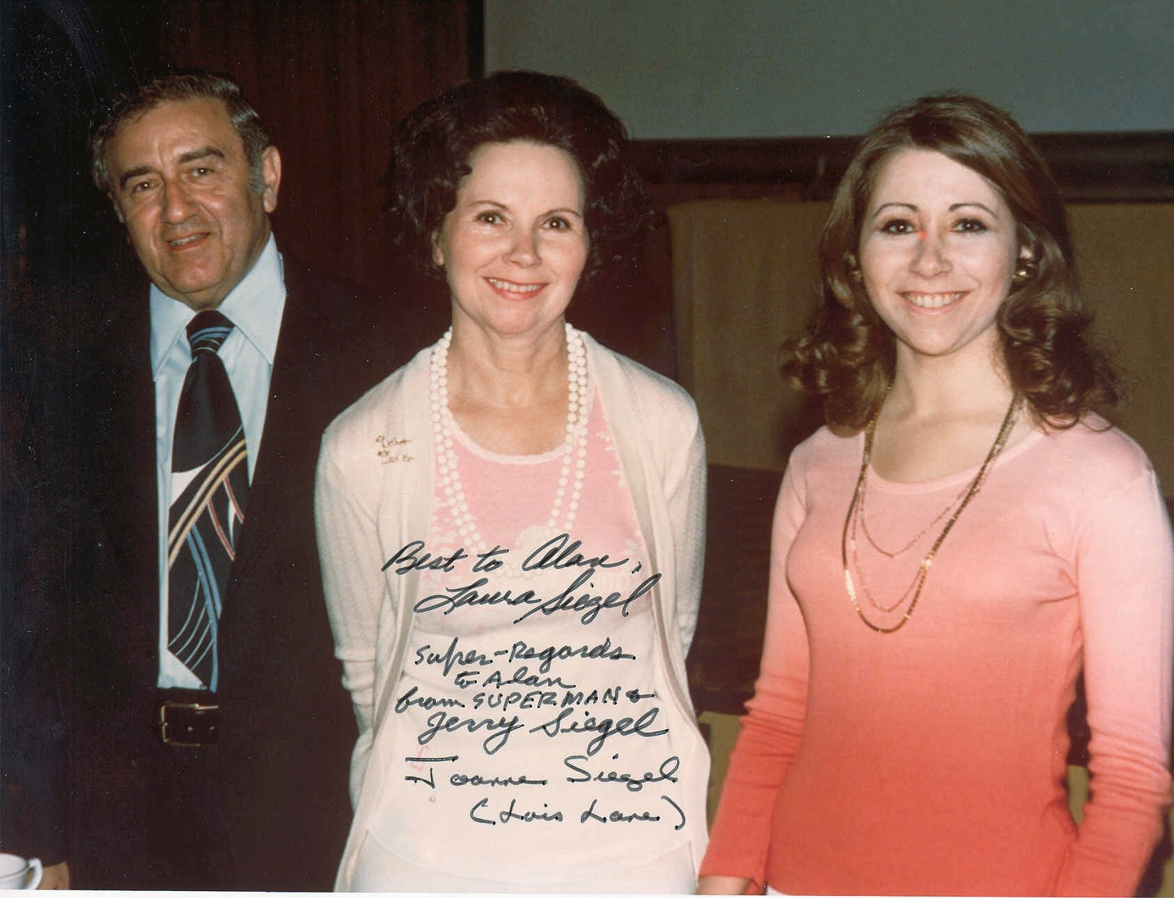 Photo taken 1976 at the San Diego Comic Con - Jerry Siegel is the co-creator of SUPERMAN; his wife Joanne was the model for Lois Lane - Also shown is their daughter, Laura Siegel Larson